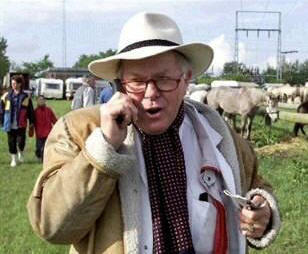 Laasby-Svendsen at Hjallerup Market